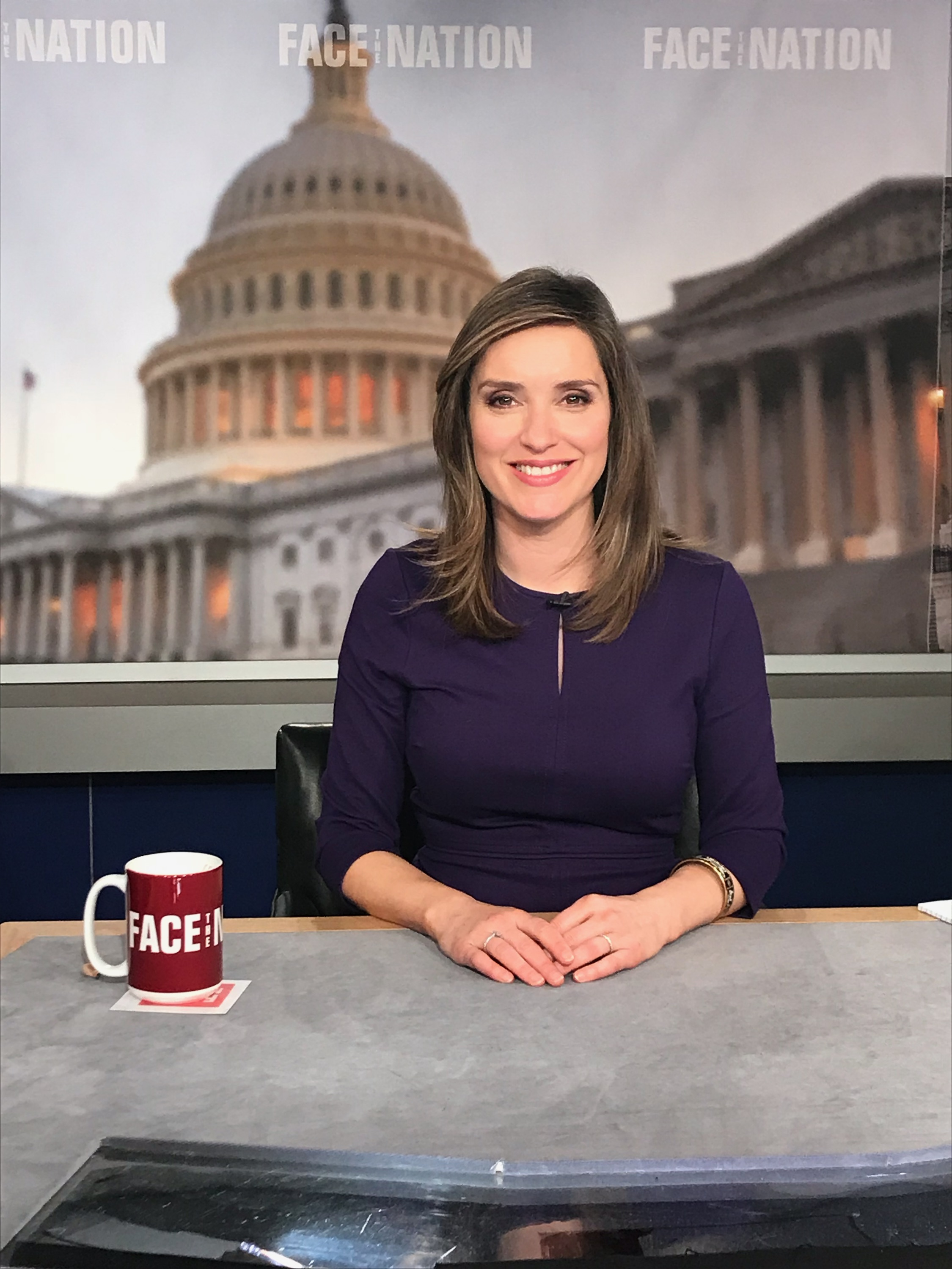 Margaret Brennan on the Set of Face the Nation before the April 29, 2018 broadcast.